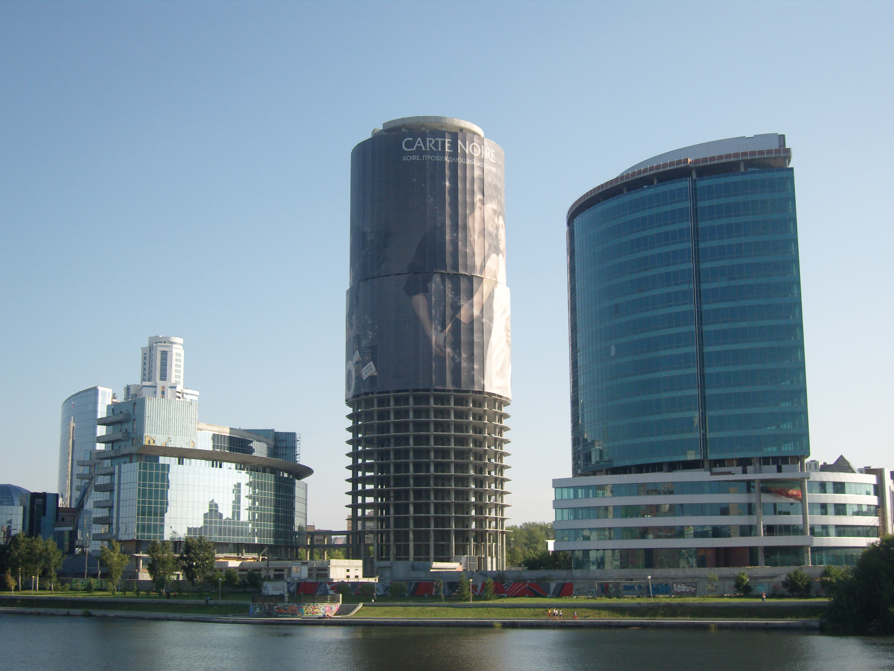 President and Demidov Plaza buildings in Yekaterinburg